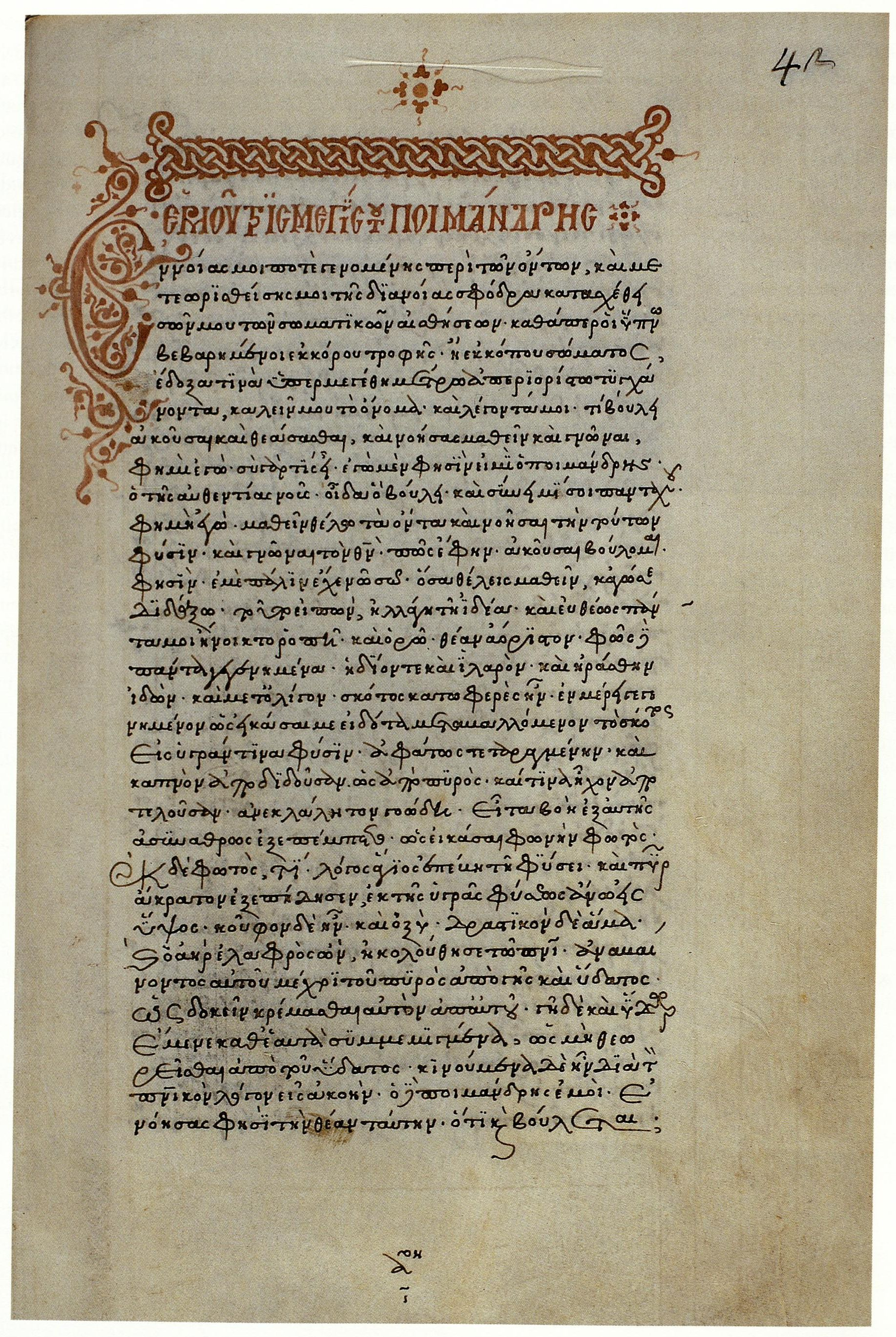 The beginning of the Poimandres, the first treatise of the Corpus Hermeticum, in the manuscript Venice, Biblioteca Nazionale Marciana, Gr. Z. 263 (= 1025), fol. 42r. The manuscript was owned by Cardinal Bessarion.